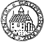 Sign of Grums Hundred.